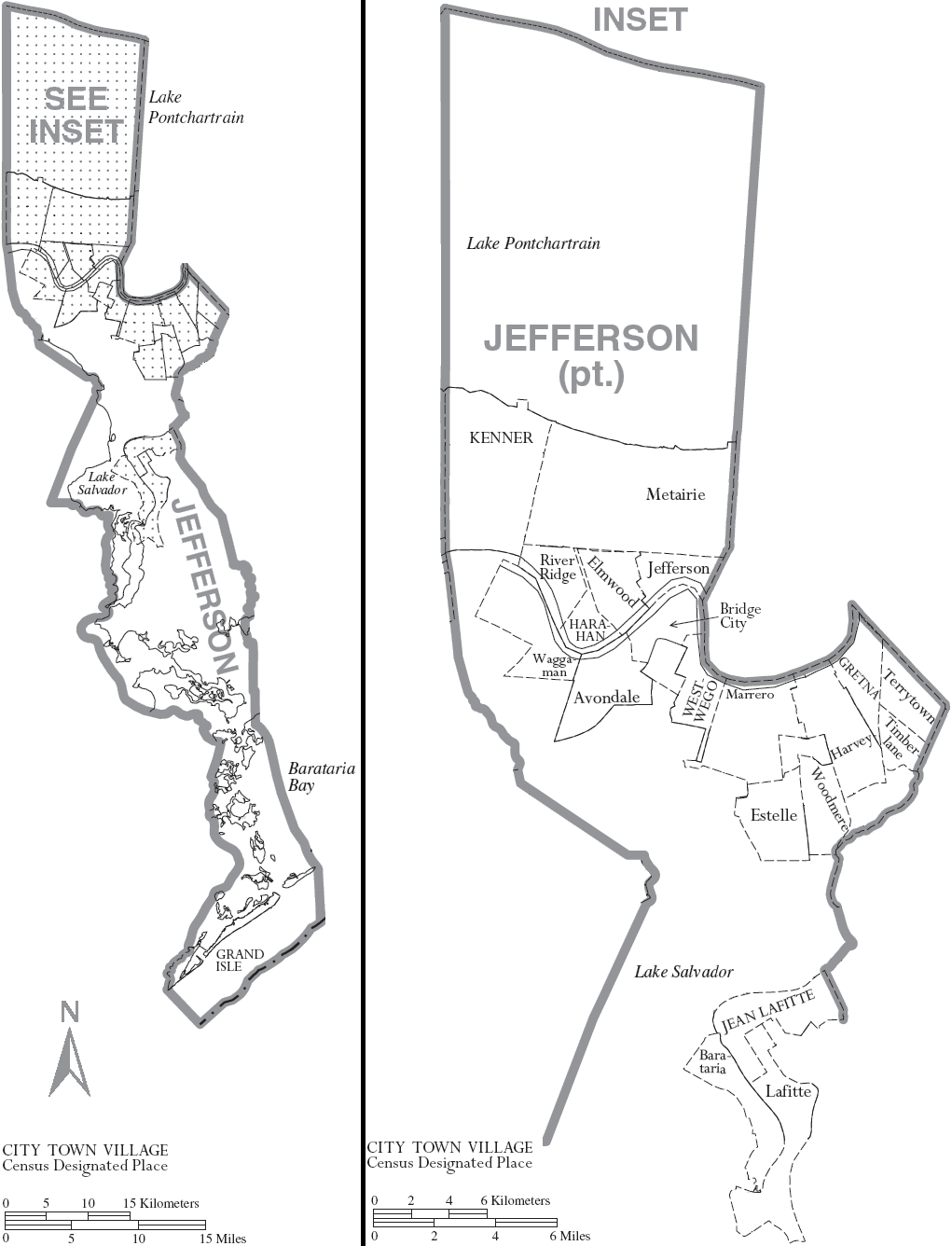 Map of Jefferson Parish, Louisiana, United States with municipal boundaries